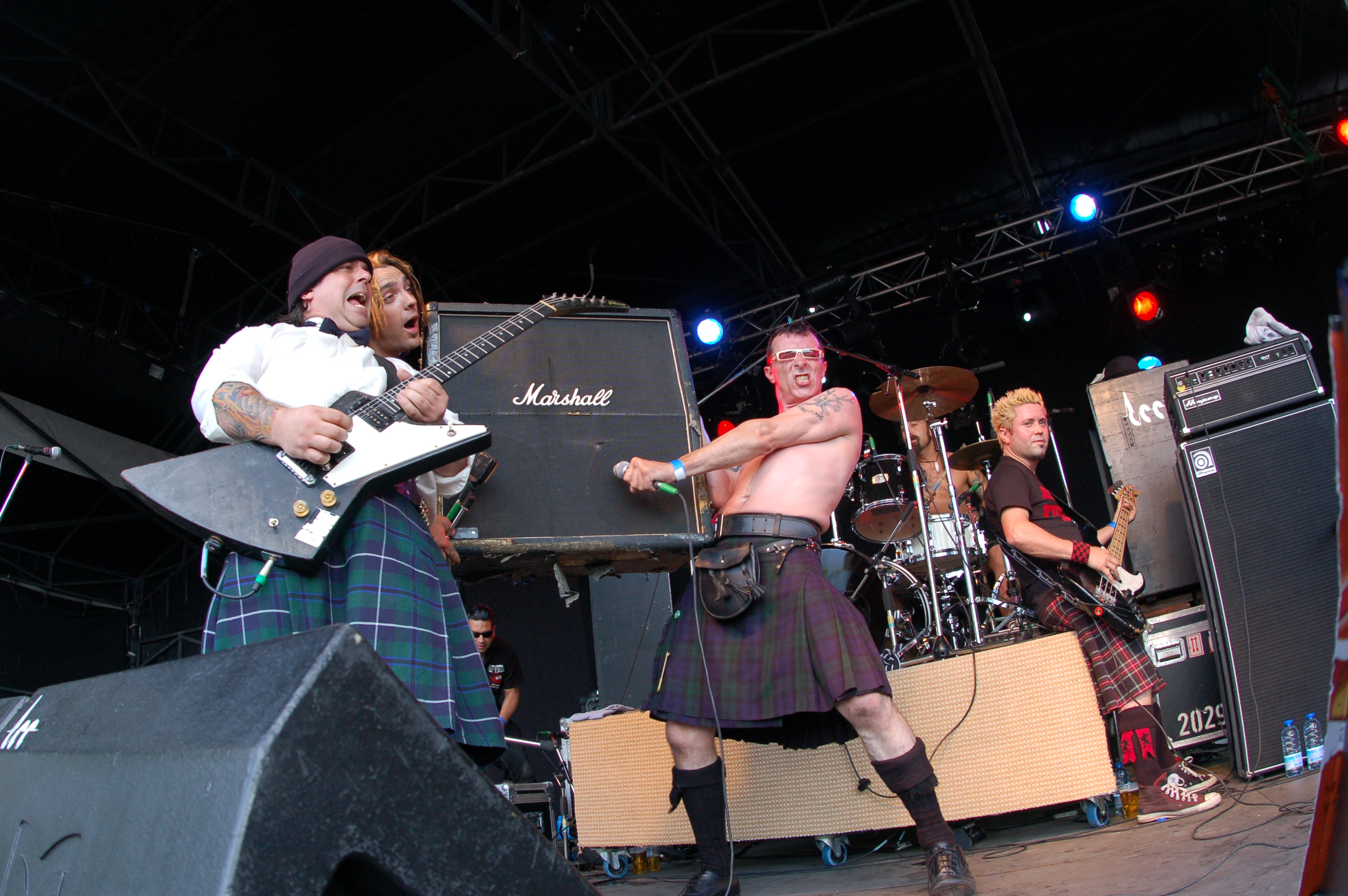 The Real MC Kenzies op Sjock